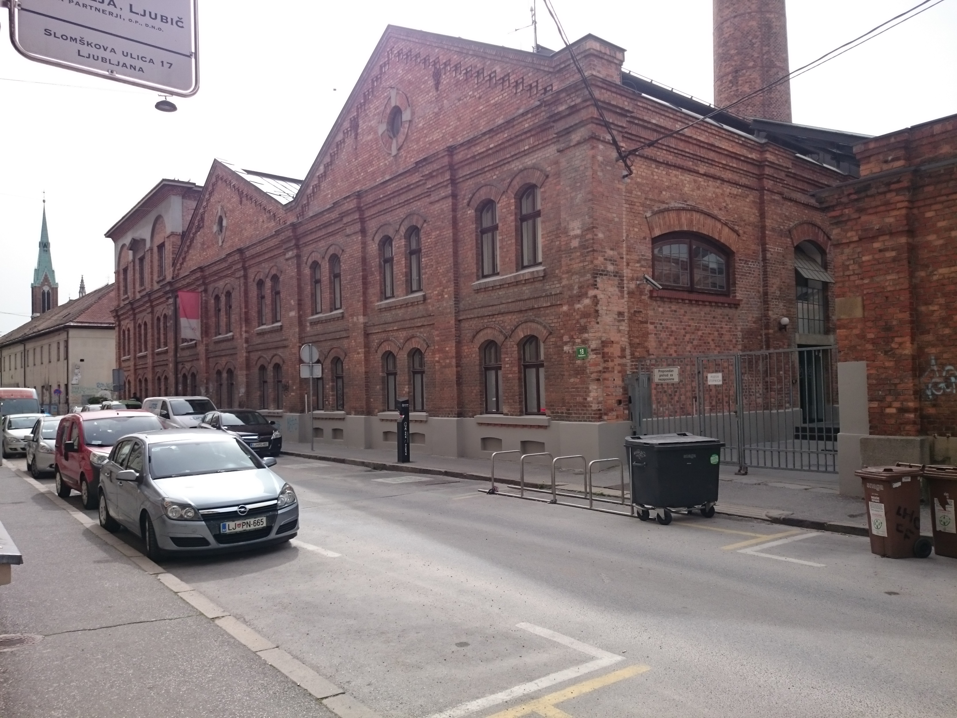 Northern front wall of the old city power plant (in operation between 1898 and 1966) in Ljubljana, located at Slomškova ulica 18. View from west.